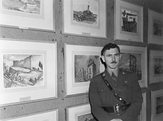 Capt. Will Ogilvie, Official army war artist, with some of his paintings. 9 Feb. 1944. From which says: Restrictions on use/reproduction: Nil Copyright: Expired Credit: Canada. Dept. of National Defence / Library and Archives Canada / PA-116589